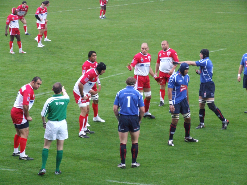 Picture taken on December 17, 2006 at Parc des Sports d'Aguilera in Biarritz, France.